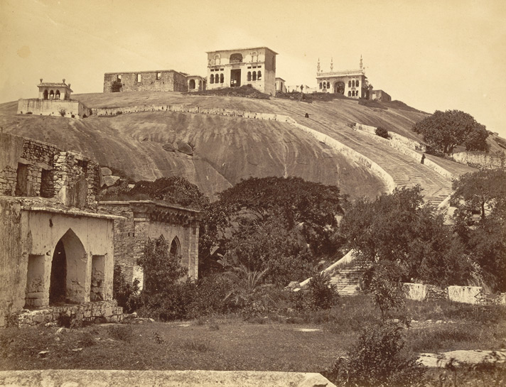 Photograph of a view of Maula Ali Hill near Hyderabad. This print was by an unknown photographer in the 1870s and is part of the Temple Collection. Maula Ali Hill is situated 6.5 km (4 miles) west of Secunderabad, Andhra Pradesh. The Shrine of Maula Ali is located here, together with a mosque and other ancient ruins including an old fortress and a large prehistoric cemetery.